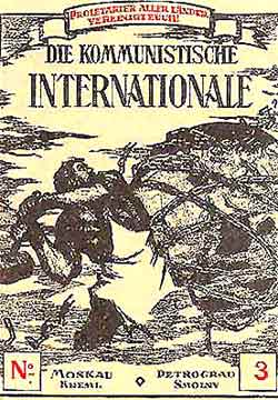 Front cover of issue 3 of the German language version of The Communist International